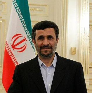 THE KREMLIN, MOSCOW. With President of Iran Mahmoud Ahmadinejad.